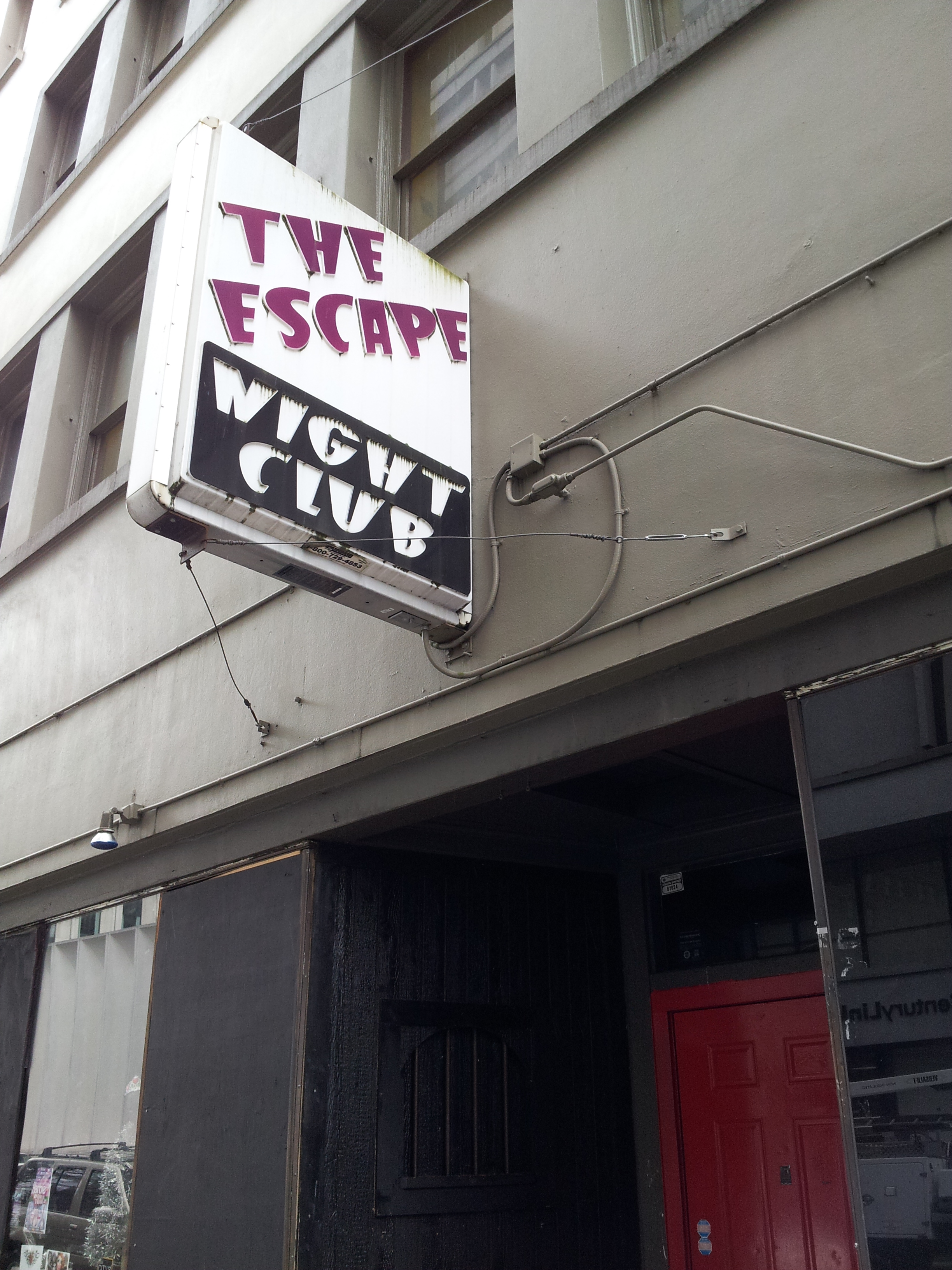 The Escape Night Club, Portland, Oregon (2014)